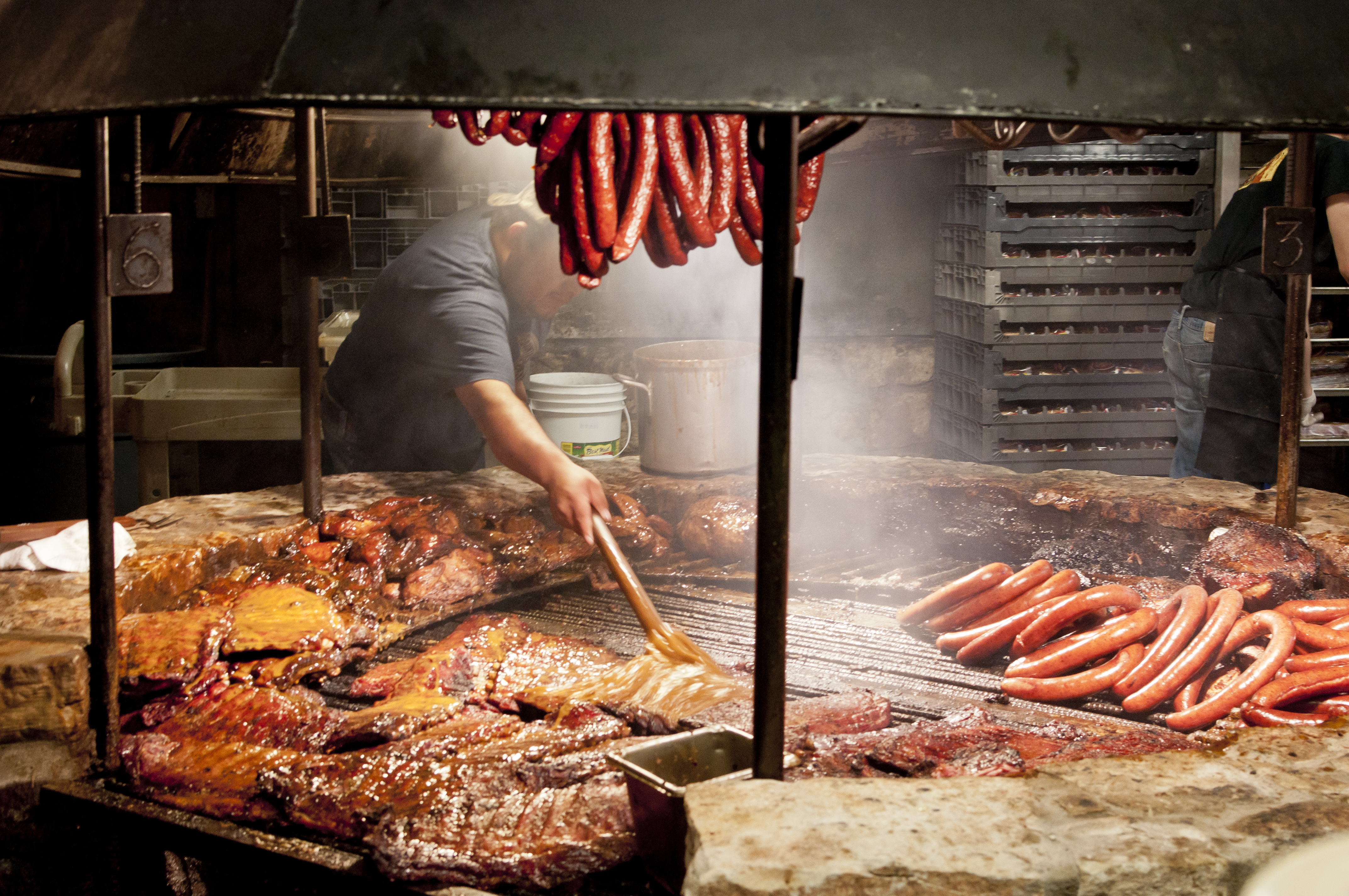 Brushing Meats with BBQ Sauce